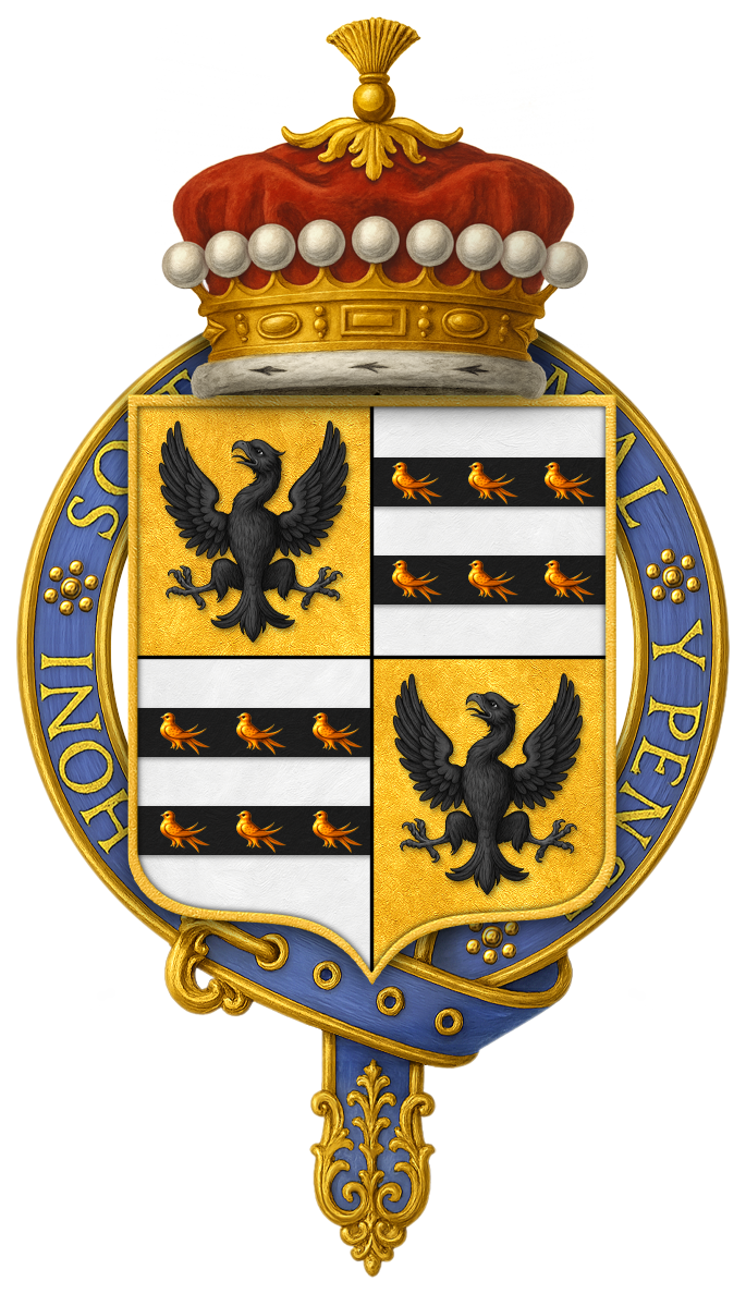 Shield of arms of Henry John Temple, 3rd Viscount Palmerston, KG, GCB, PC, FRS